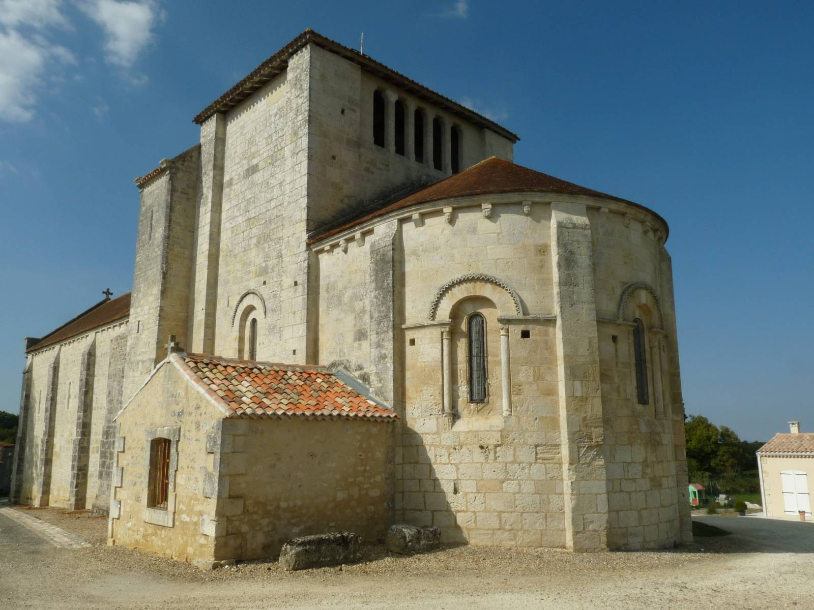 church of Claix, Charente, SW France